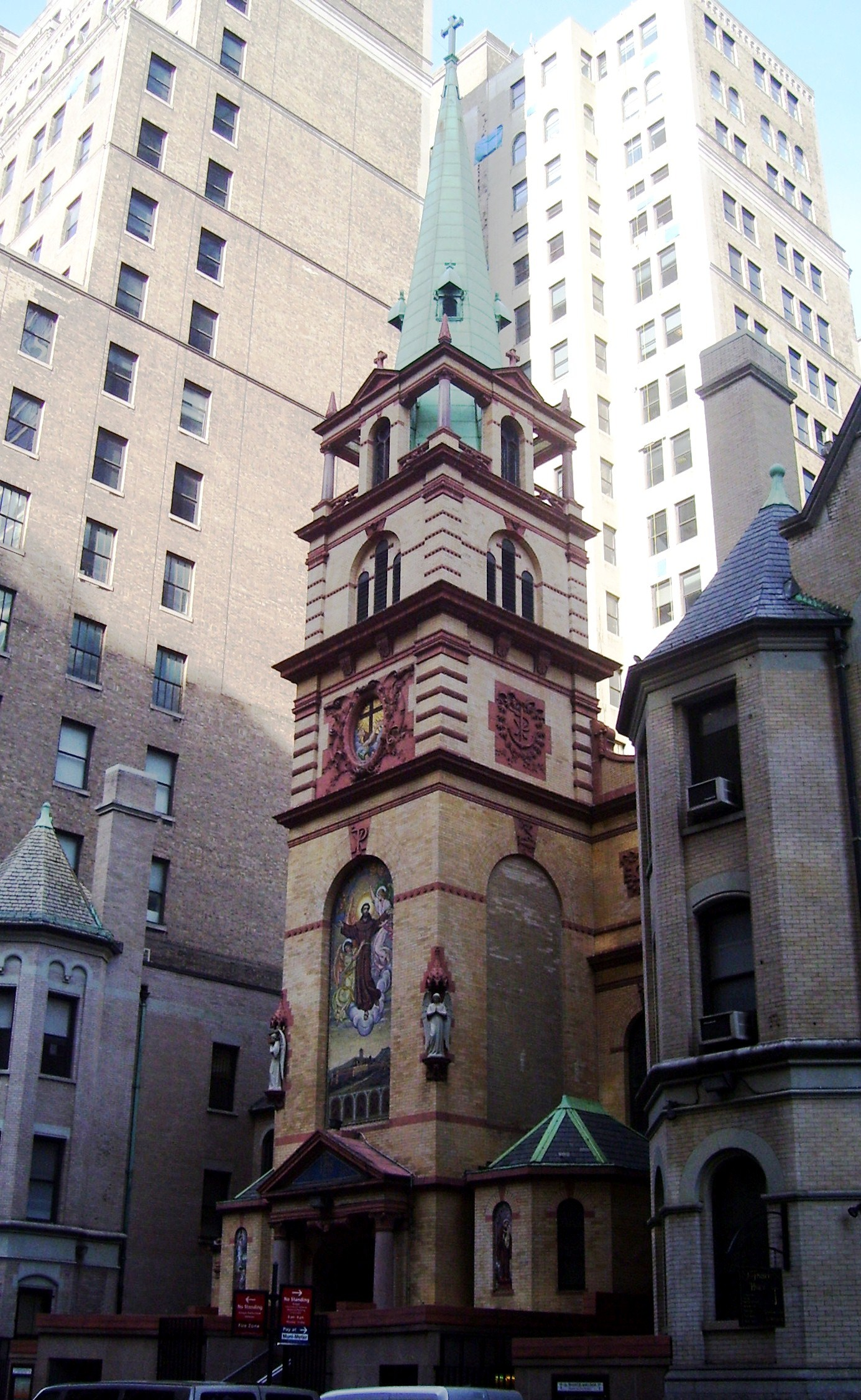 The Church of St. Francis of Assisi at 135 West 31st Street betwen Sixth and Seventh Avenues in the Garment District of Midtown Manhattan, New York City, was built in 1891 and was designed by Henry Erhardt. It was constructed on the site of a previous church, which had been dedicated in 1844. In 1925 one of the largest mosaics in the United States, The Glorification of the Mother if Jesus by Rudolph Margreiter was installed in the church, and in 1958 a courtyard was added to the building. (Source: From Abyssinian to Zion (2004))